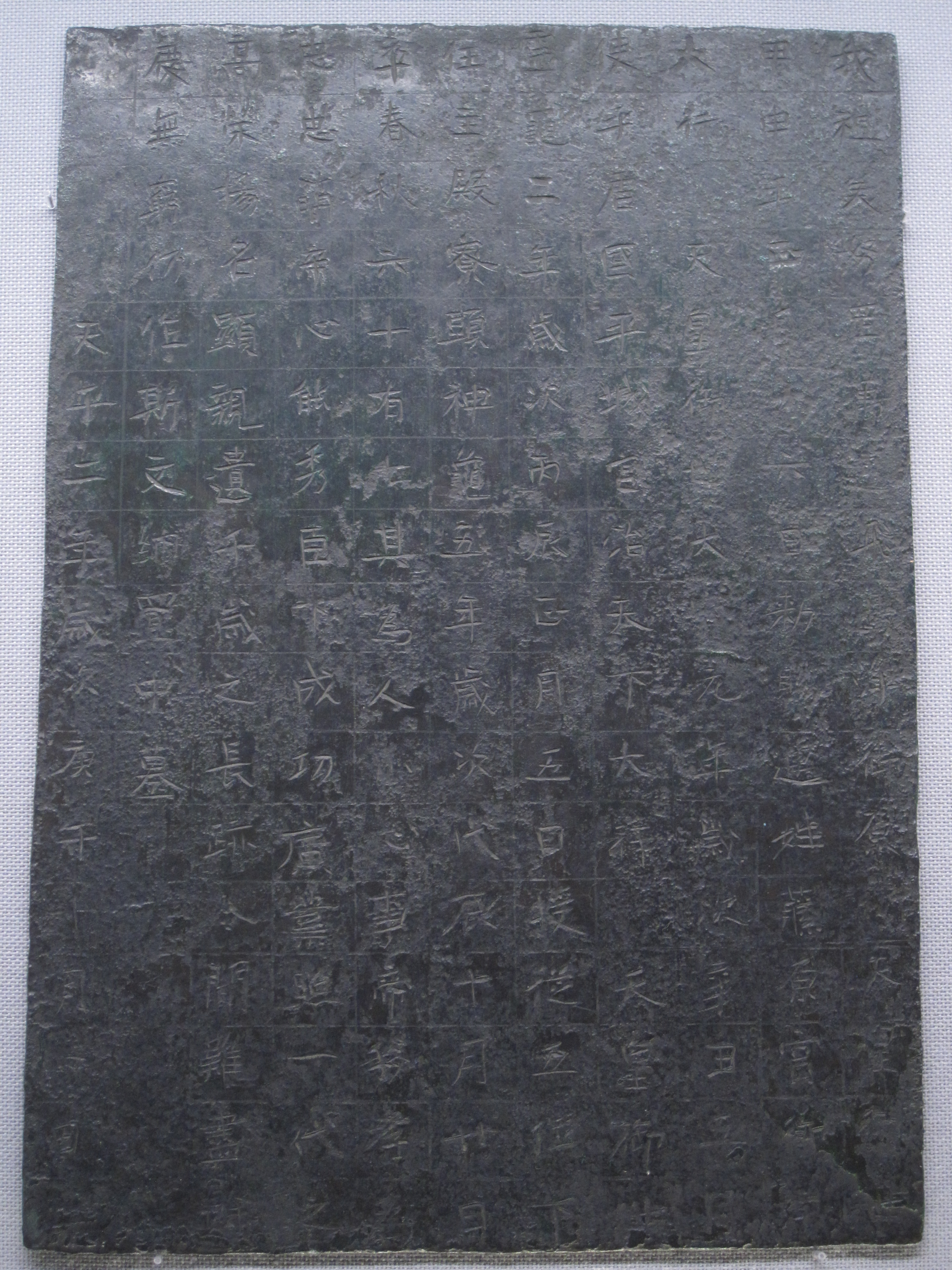 The bronze epitaph of Mino no Okamaro (Important Cultural Property), made in 730, the collection of Tokyo National Museum.